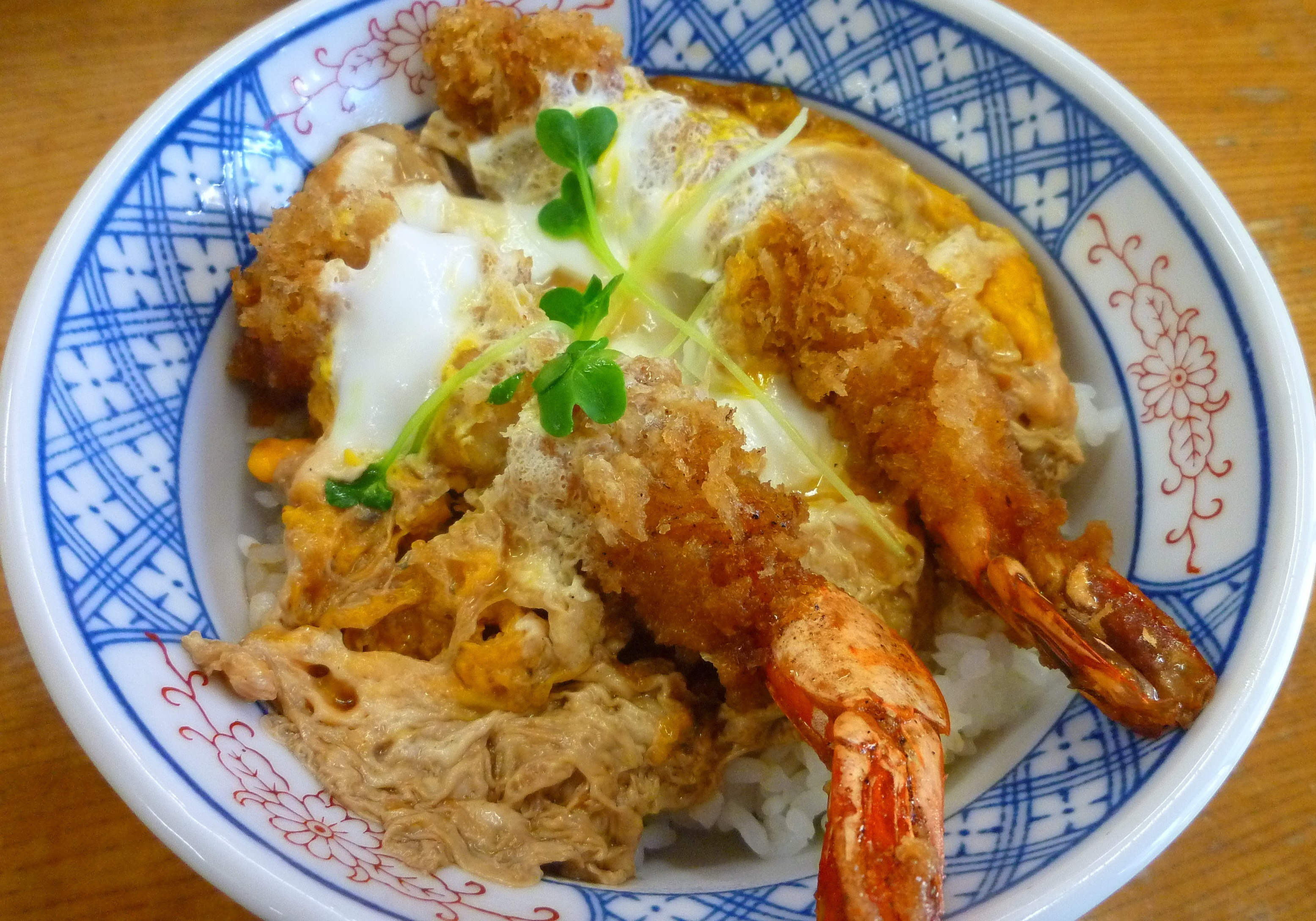 Kamakuradon